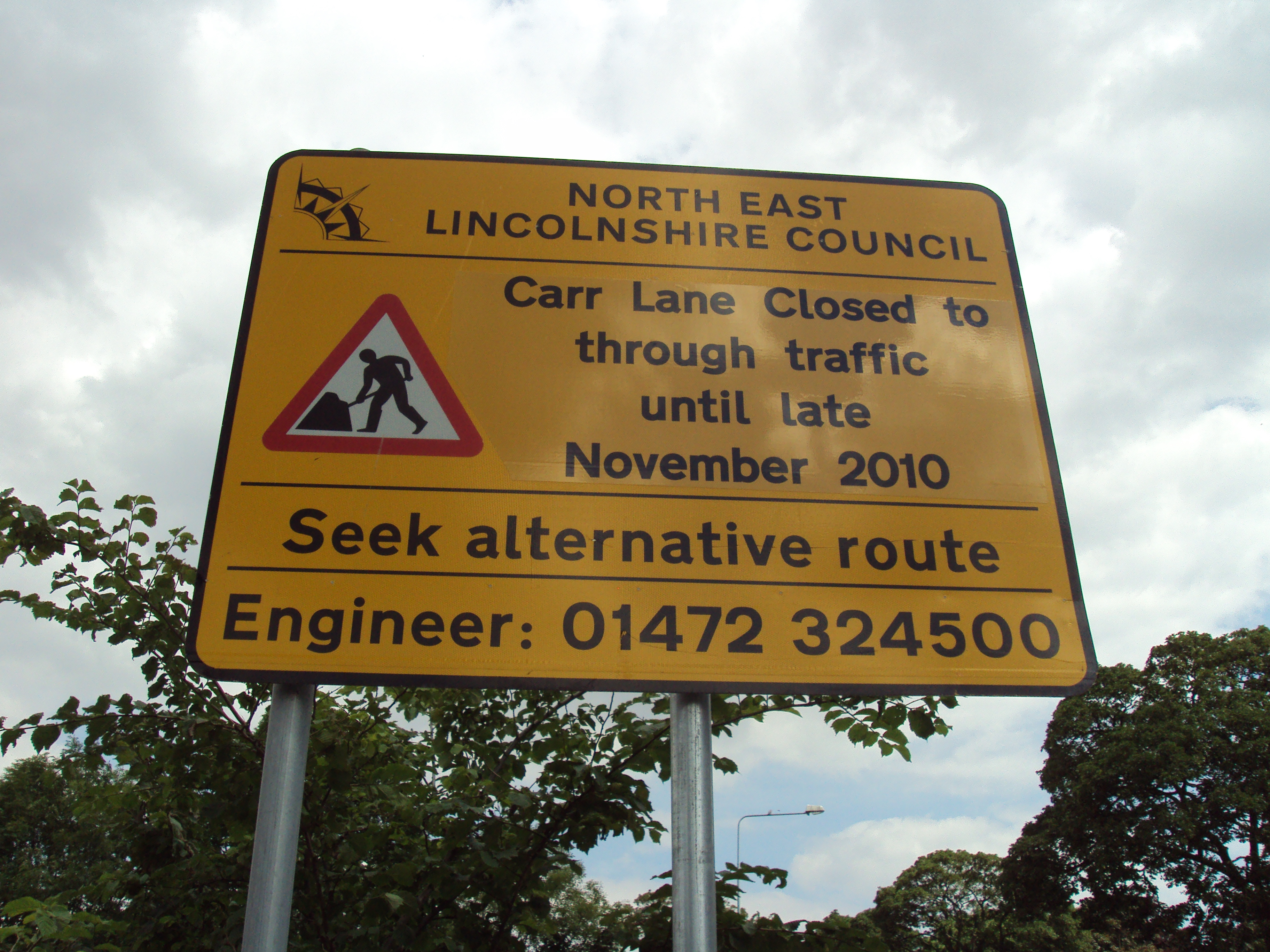 Road works sign on A46 Clee Road near Cleethorpes, Lincolnshire, England.